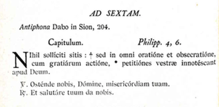 Capitulum at Sext (Antiphonale monasticum)